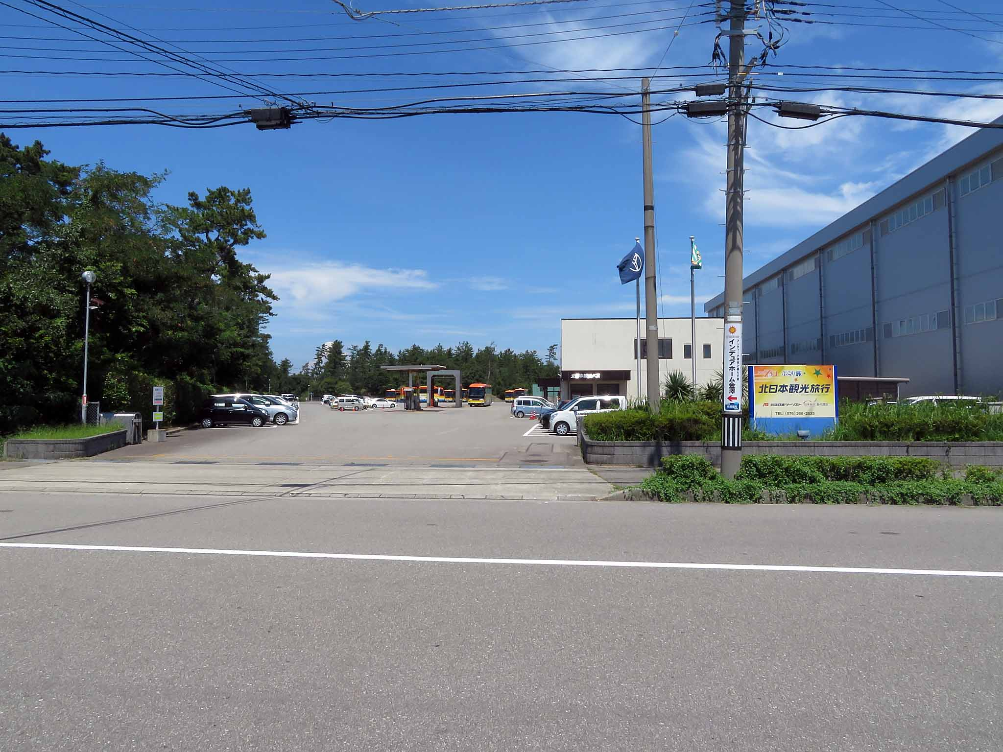 Head office and Kanazawa Depot of Kitanippon Kanko Jidosha, sightseeing bus operator in Kanazawa, located at Sakimori-cho.